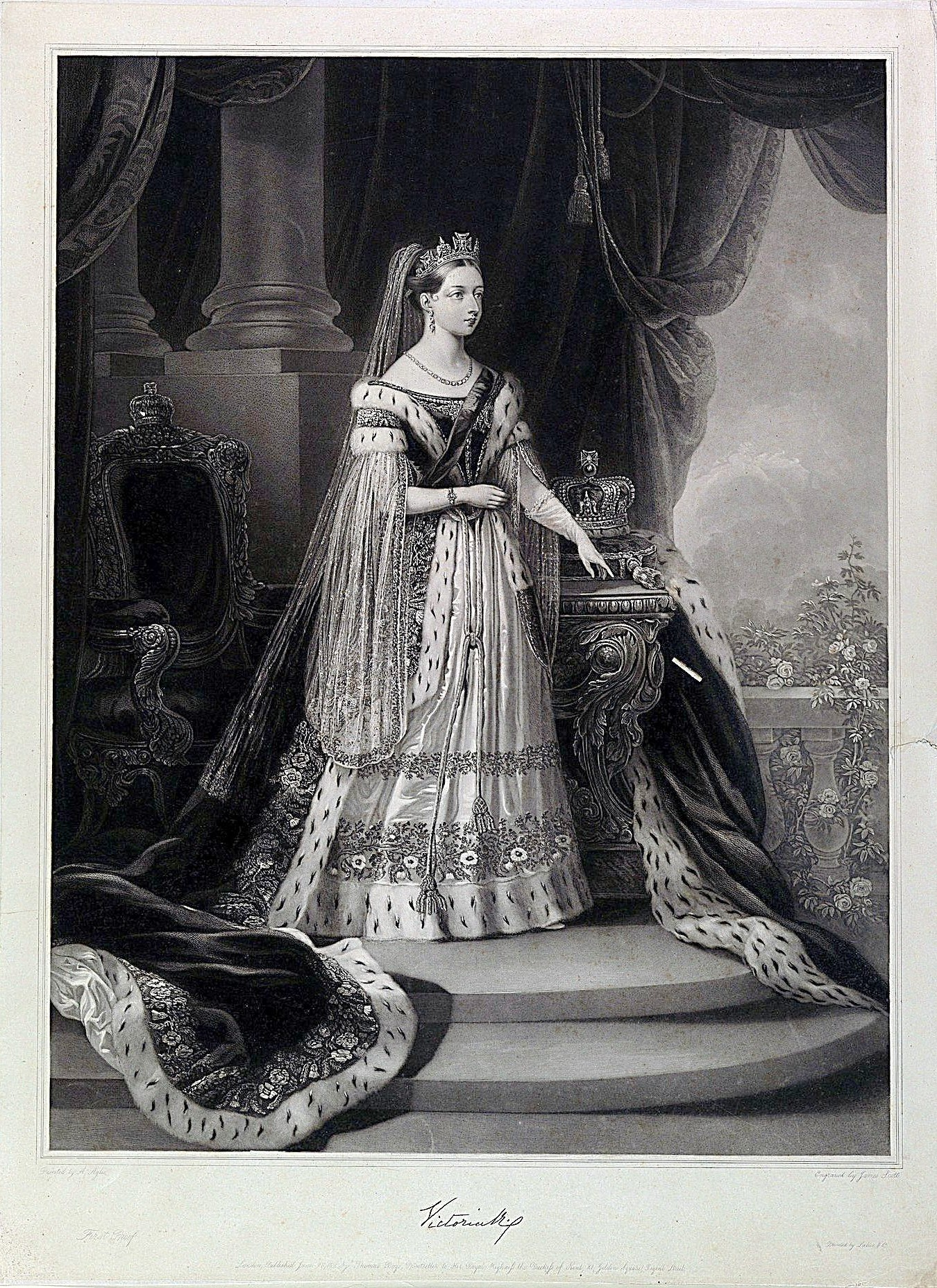 Queen Victoria, Queen of the United Kingdom. Mezzotint with stipple and etching 37.6 x 43.7 cm (image). Lahee: London (printer) Boys, Thomas : 11, Golden Square (publisher). Mezzotint with stipple and etching of Queen Victoria as queen. Whole length with hair in knot, crown, jewelled earrings and necklace, jewelled bodice, full skirt, lace veil, and ermine mantle. Standing with crown on table to right and throne in background left. With columns, drapery, and foliage in the background and with facsimile of signature below. Publisher's address, 'London Published June 28, 1838m by Thomas Boys, Printsellers to Her Royal Highness the Duchess of Kent, XI, Golden Square, Regent Street.' First proof.